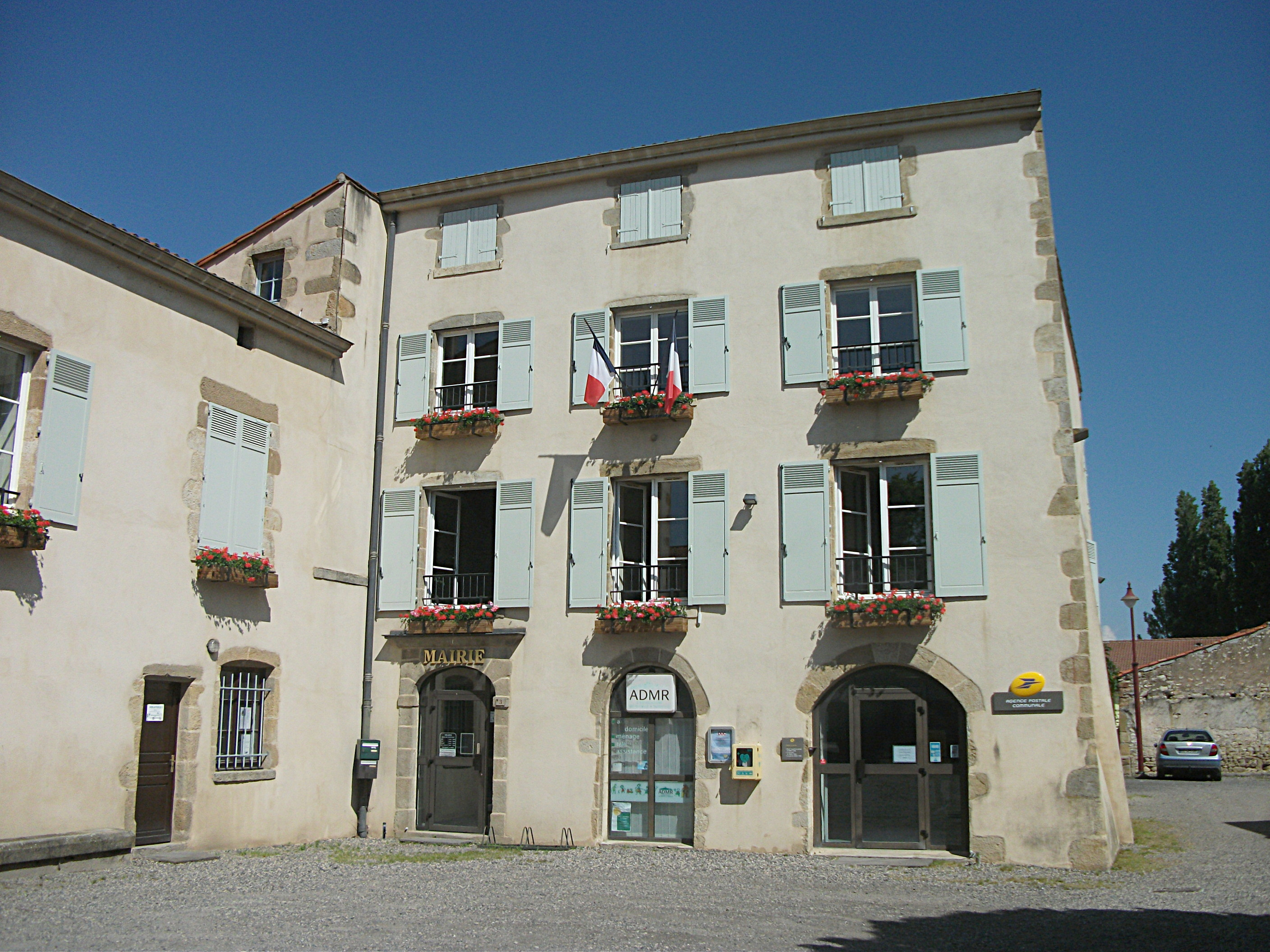 Town hall of Authezat, Puy-de-Dôme, Auvergne-Rhône-Alpes, France. [14463]